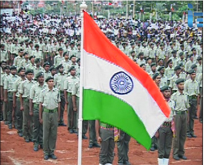 Independence Day Freedom Parade by Popular front 2010